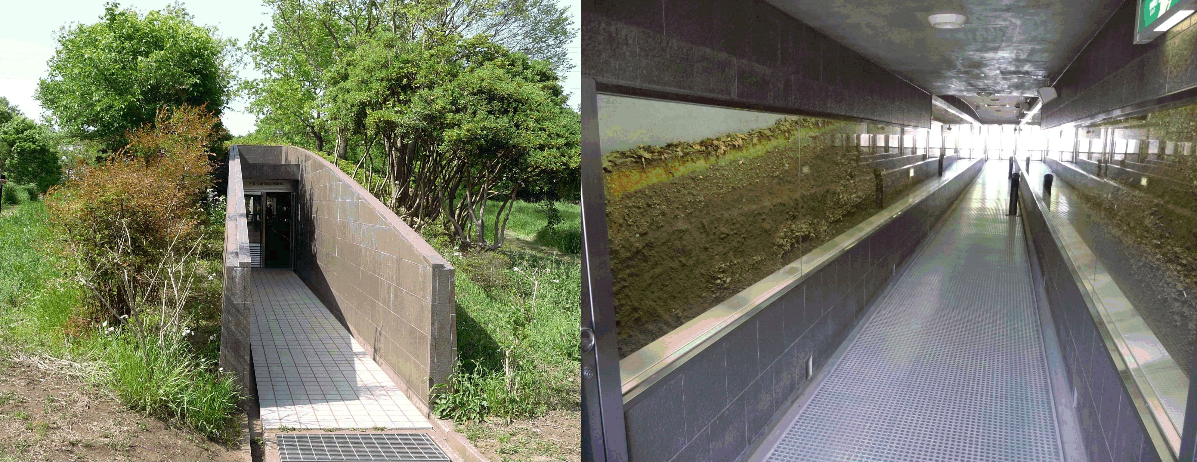 Kasori Shell midden preserve north (right) as the cutting (transportation) of small hill (left). Chiba Japan. Widest shell midden in Japan.